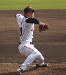 Giants_kishi